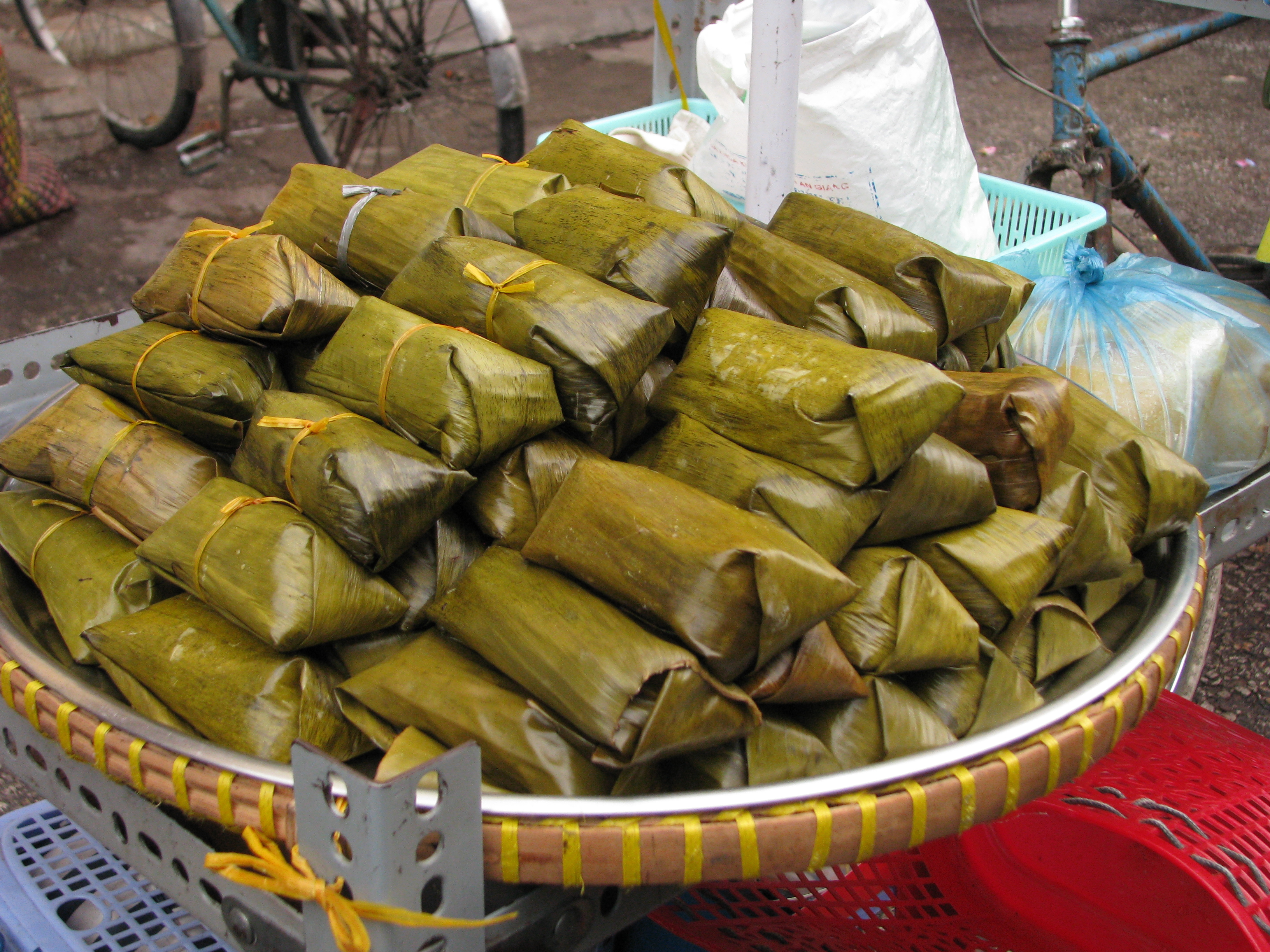 Sticky rice wrapped in banana leaves. Yummy and colourful food on display at the market in Chau Doc.